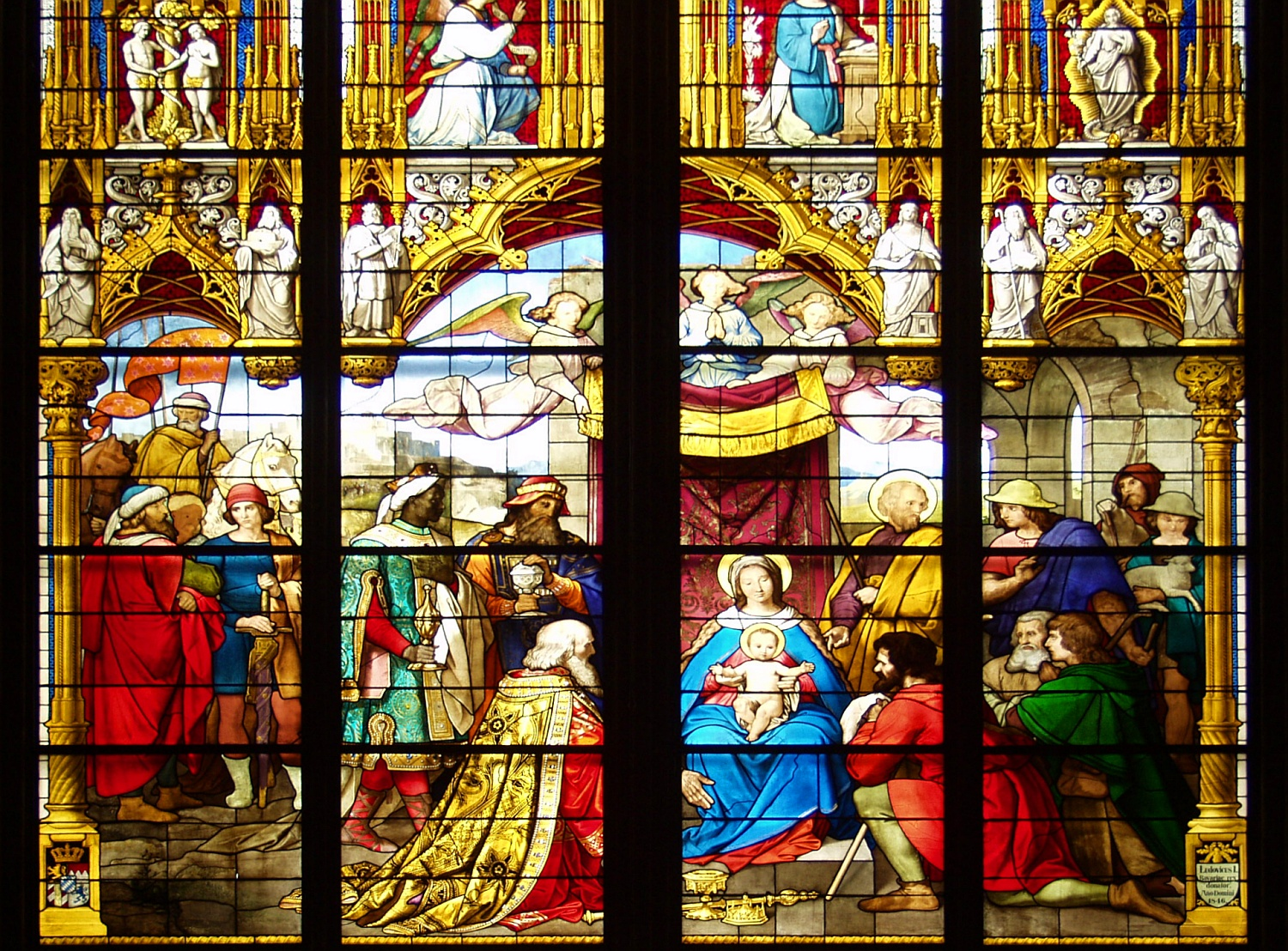 Cologne Cathedral - Windows "Bayernfenster" - Three Wise Men